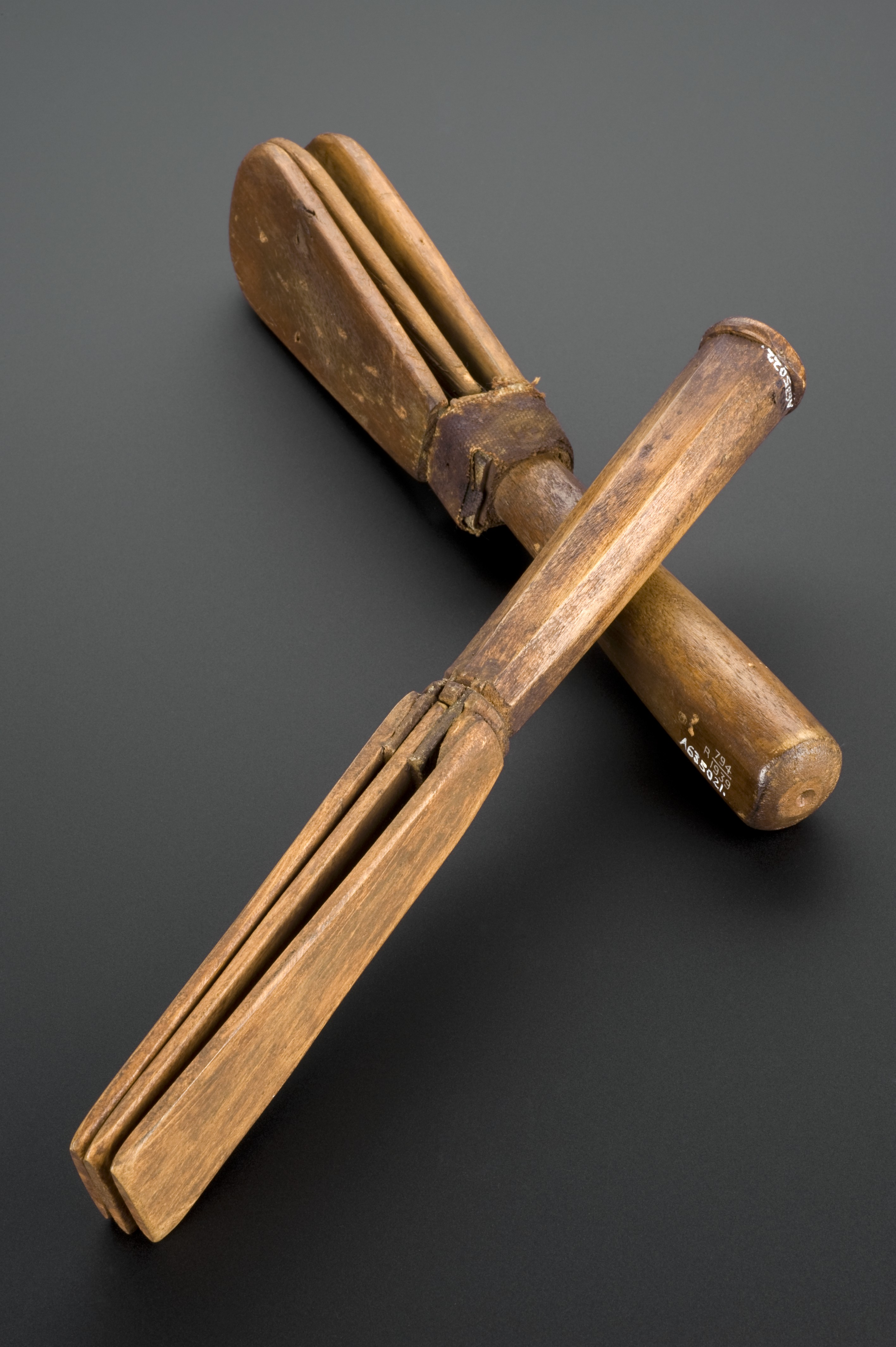 Those with leprosy, known as ‘lepers’, were made to wear distinctive clothing and carry a bell or a clapper to warn people of their approach. The clappers may also have been used to attract attention for donations. Lepers were social outcasts. People were so afraid of catching the disease because of its effects. It causes lumps on the skin and attacks the nervous system. In the worst cases it can cause disfigurement to the face, hands and feet, and muscle paralysis. This example is a copy of an original from the 1600s, which came from St Nicholas leper hospital in Kent, England. Henry Wellcome did his utmost to acquire objects for his collection. He was not always successful. Undeterred, he would seek permission to have copies made of those objects he could not acquire. It is shown here with a similar example (A635022). maker: Unknown maker Place made: England, United Kingdom Wellcome Images Keywords: leper clapper; Leprosy